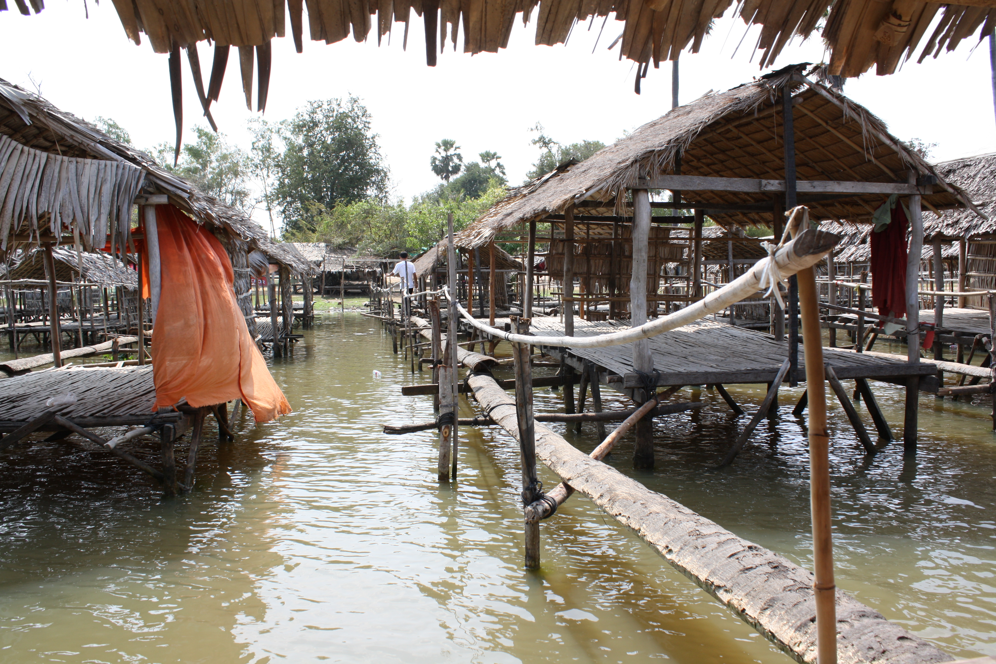 Picnic site at Tonle Bati, Cambodia